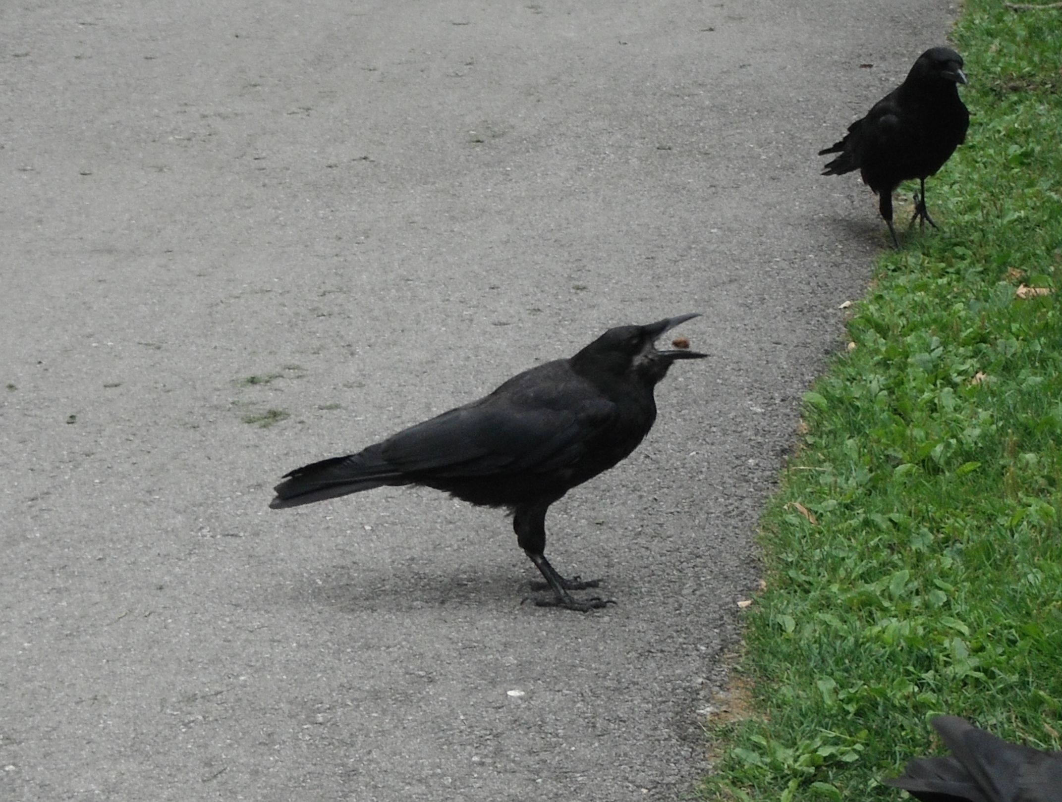 Northwestern Crow Corvus caurinus